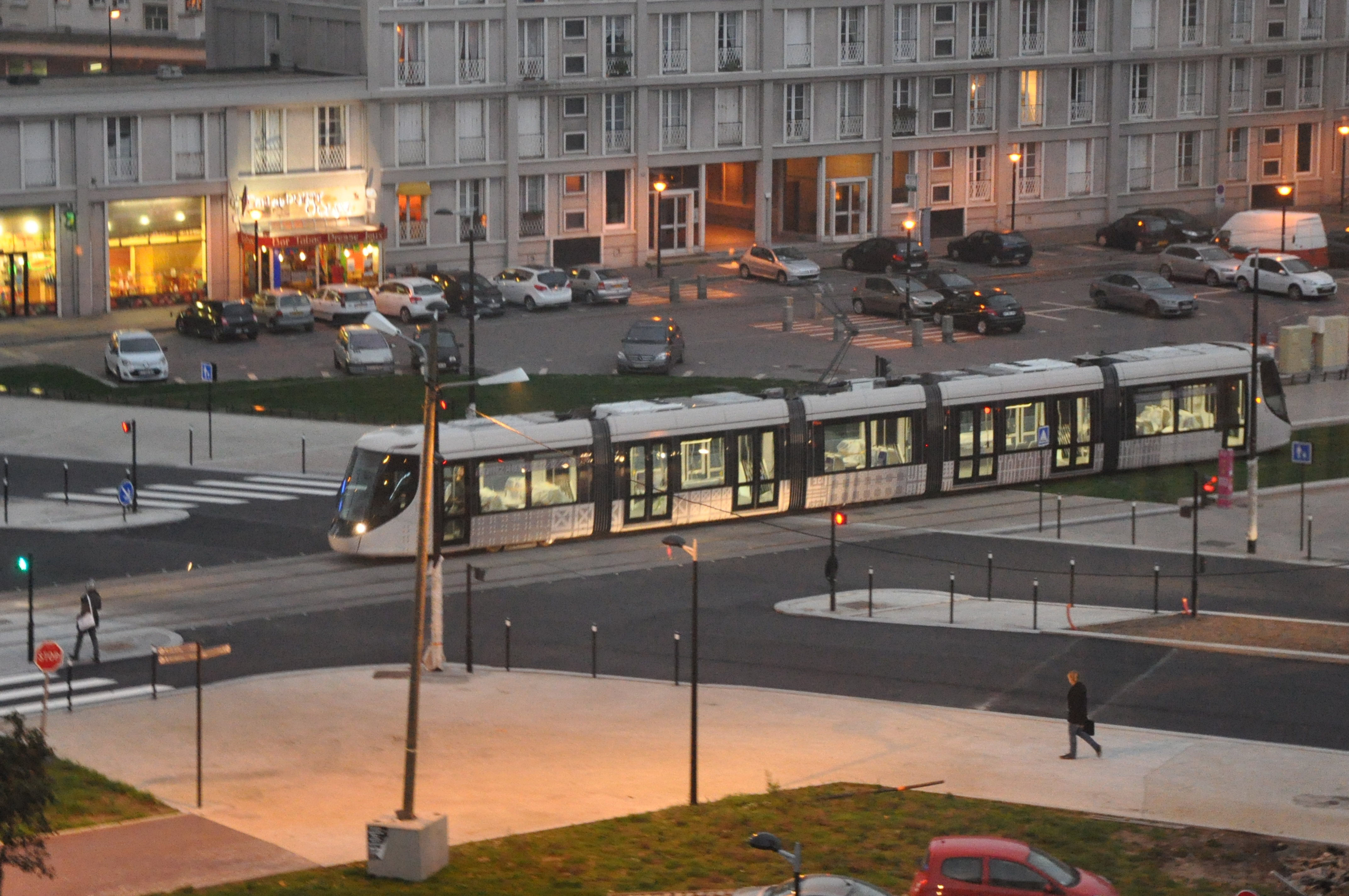 Testing new tramway of Le Havre (France, Normandy).